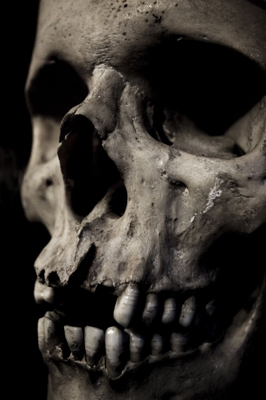 Closeup of a human skull.